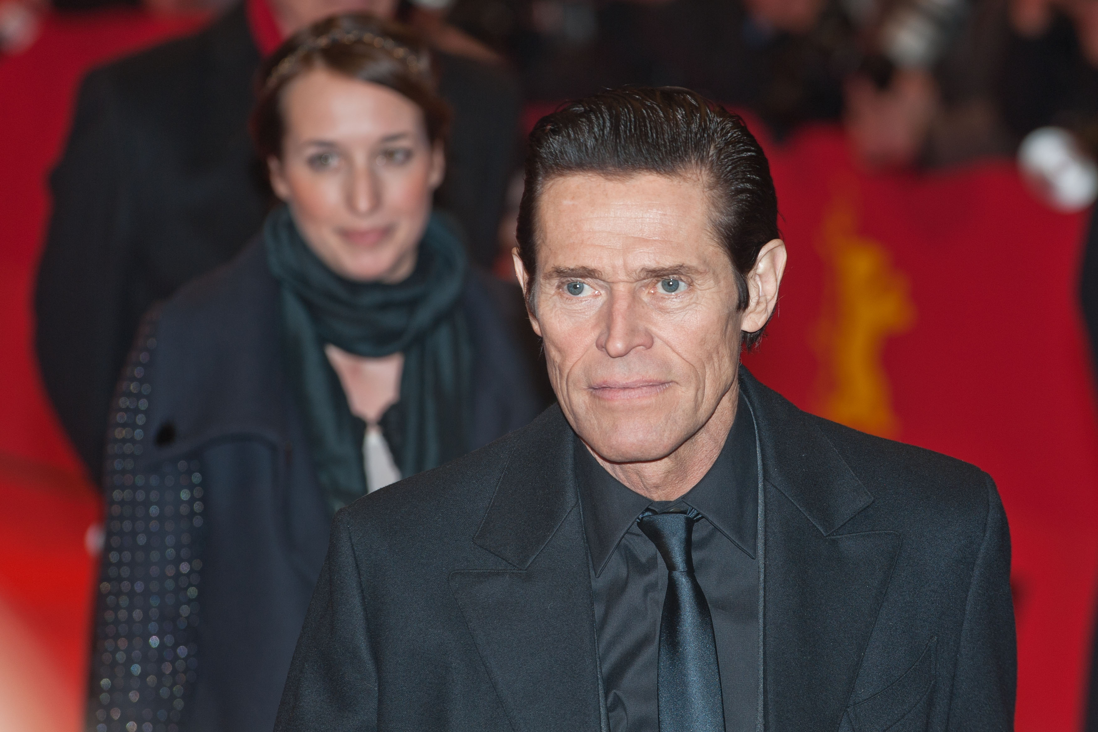 Actor Willem Dafoe at the opening of the 64th Berlin International Film Festival at the Berlinale Palast